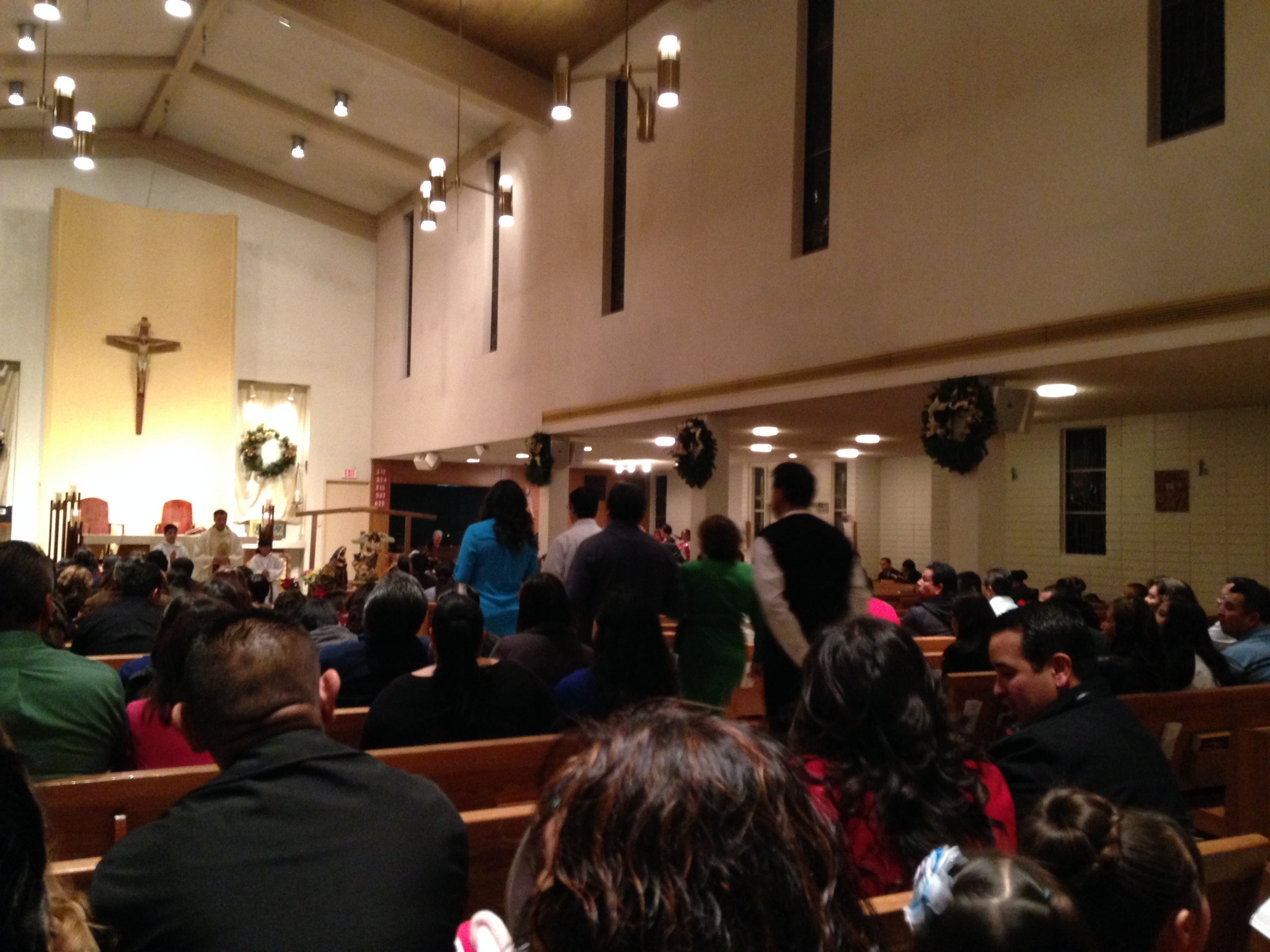 Altar/Interior of Olive Avenue location. Formerly Sacred Heart Catholic Church.